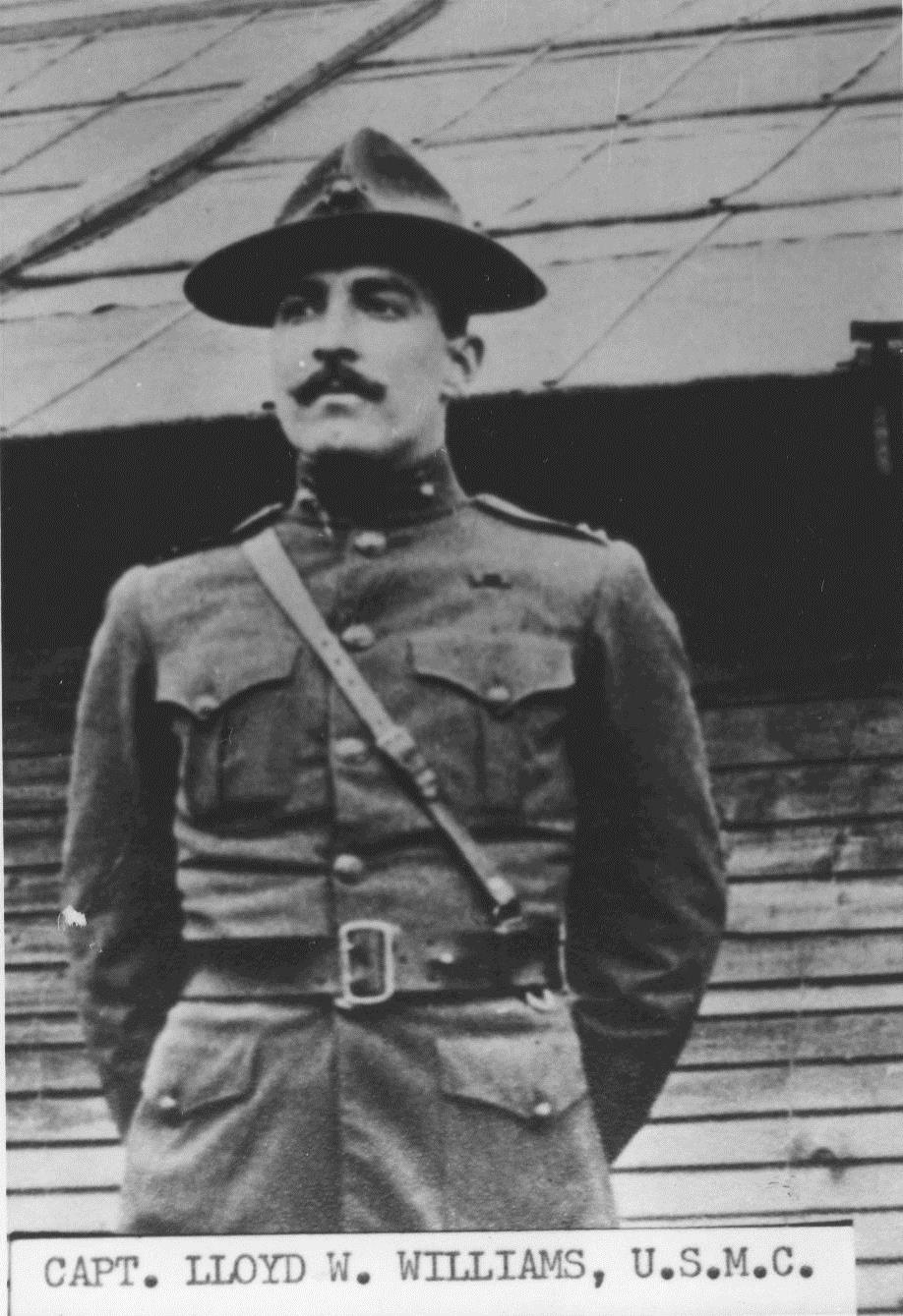 Lloyd Williams served as a company commander of 51st Company, 2d Battalion, 5th Marines during the battle of Belleau Wood. He is credited with saying "Retreat? Hell, we just got here!" when advised to withdraw by a French officer at the defensive line just north of the village of Lucy-le-Bocage. He died on 12 June 1918 of wounds received while leading an assault. From the Lloyd W. Williams Collection (COLL/77) at the Marine Corps Archives and Special Collections OFFICIAL USMC PHOTOGRAPH